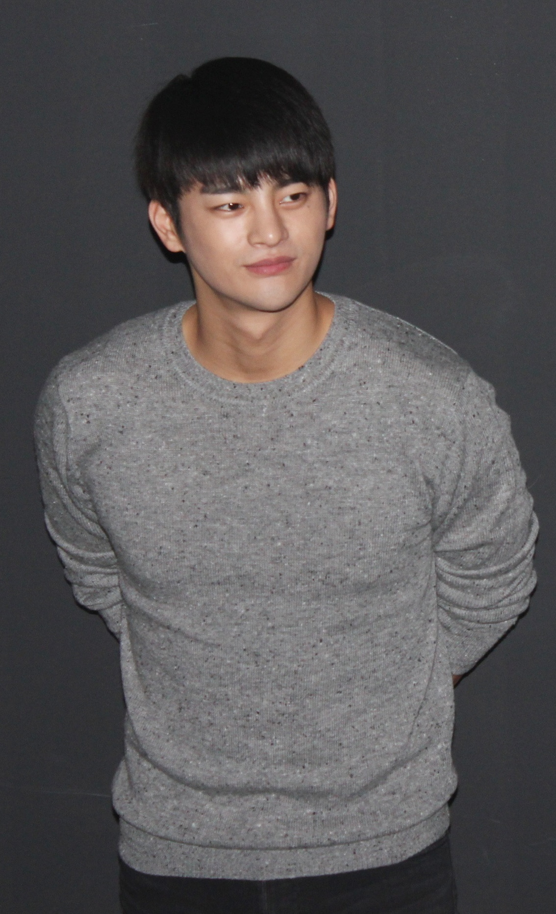 Seo In-guk at stage greeting the film "No Breathing" in Busan, on November 2, 2013.